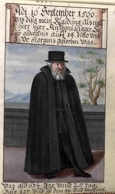 Matthäus Schwarz at the age of 63 (in a Spanish cloak)